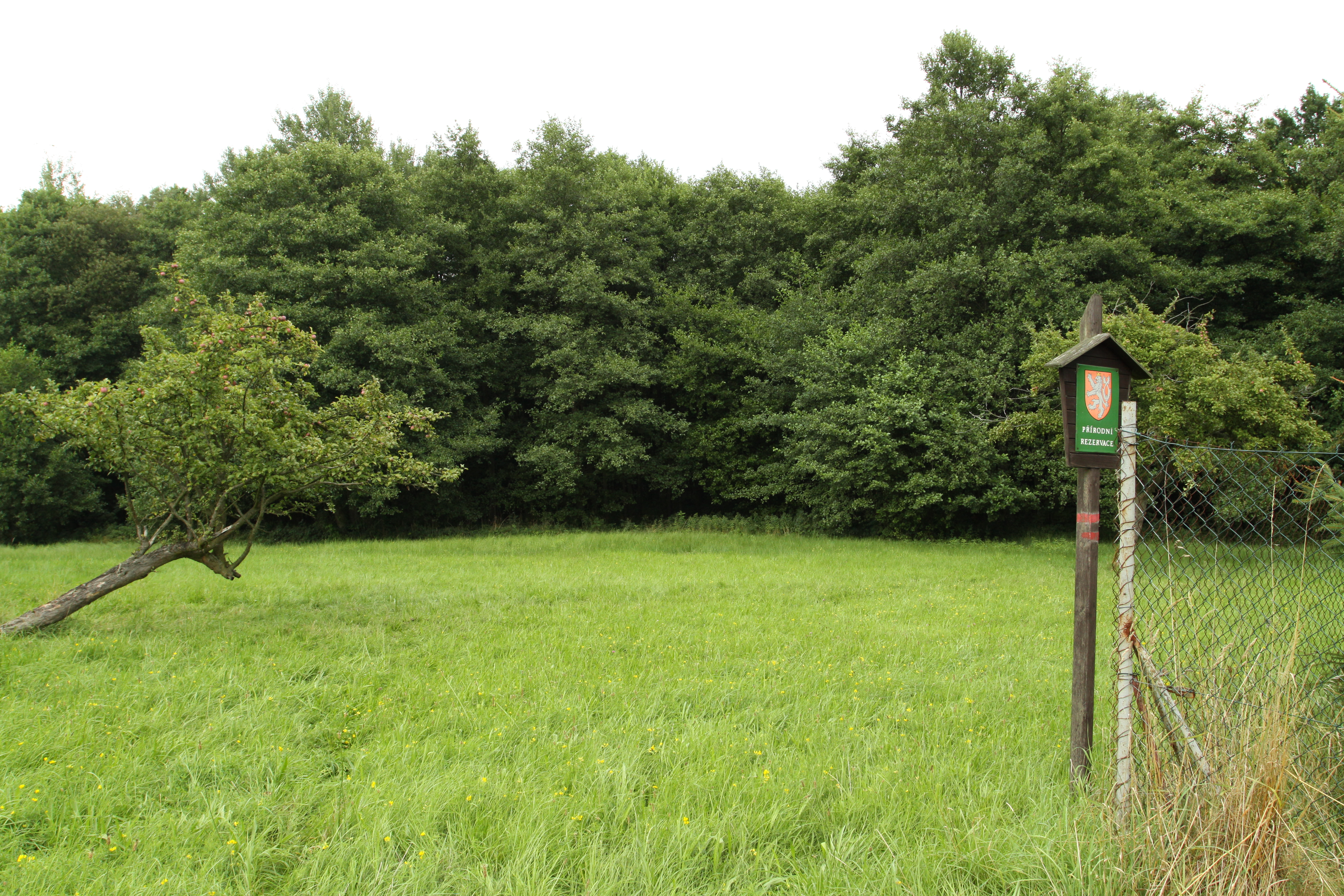 Natural monument Pod lesem in Jílové village, Děčín District, Czech Republic - Google Maps - Google Earth